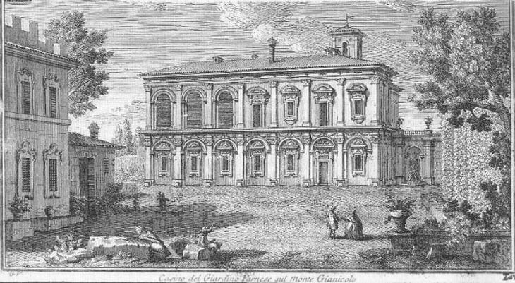 1) Casino del Giardino Farnese